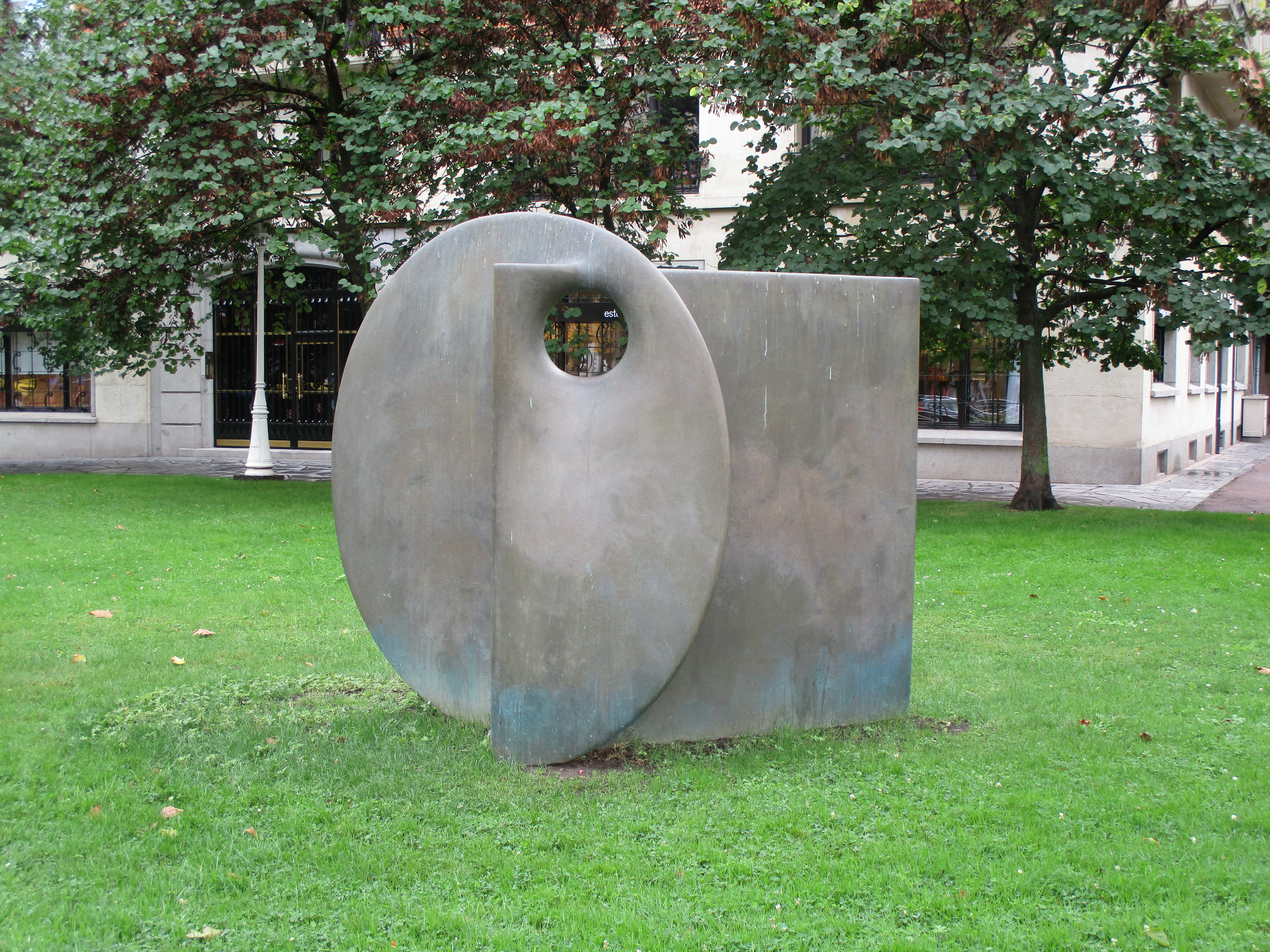 To look at